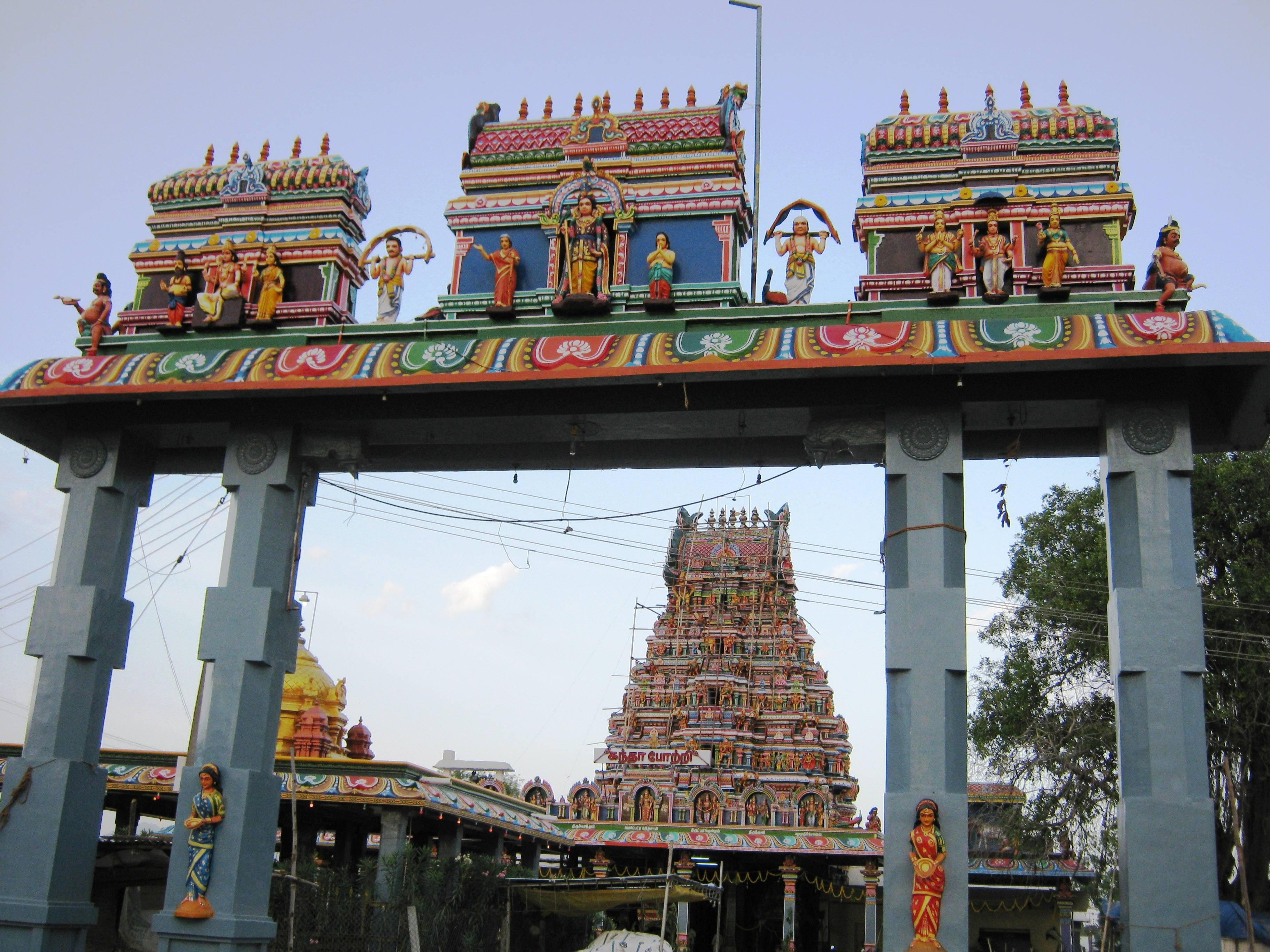 SRI KANDASWAMY TEMPLE, KALIPATTI, ( distance from Salem 20kms )